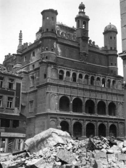 Renaissance Town Hall in Poznań, severely damaged by artillery fire during the Battle of Poznań in 1945.